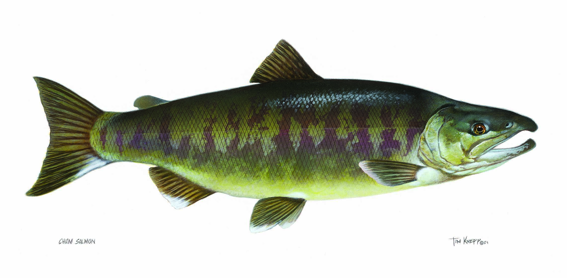 Image title: Chum salmon (Oncorhynchus keta) Image from Public domain images website